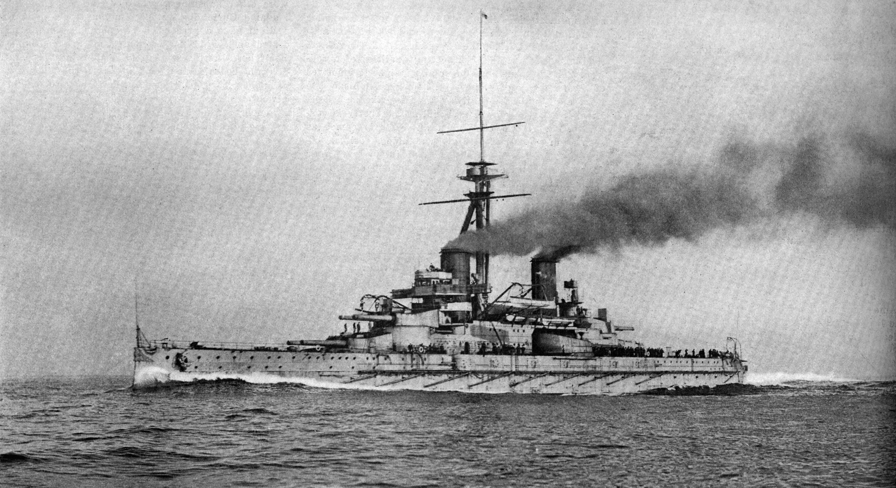 Encouraçado Minas Geraes (1910) após o seu comissionamento - Naval ship of Brazil. See File:E Minas Geraes 1910 altered.jpg for clearer image.